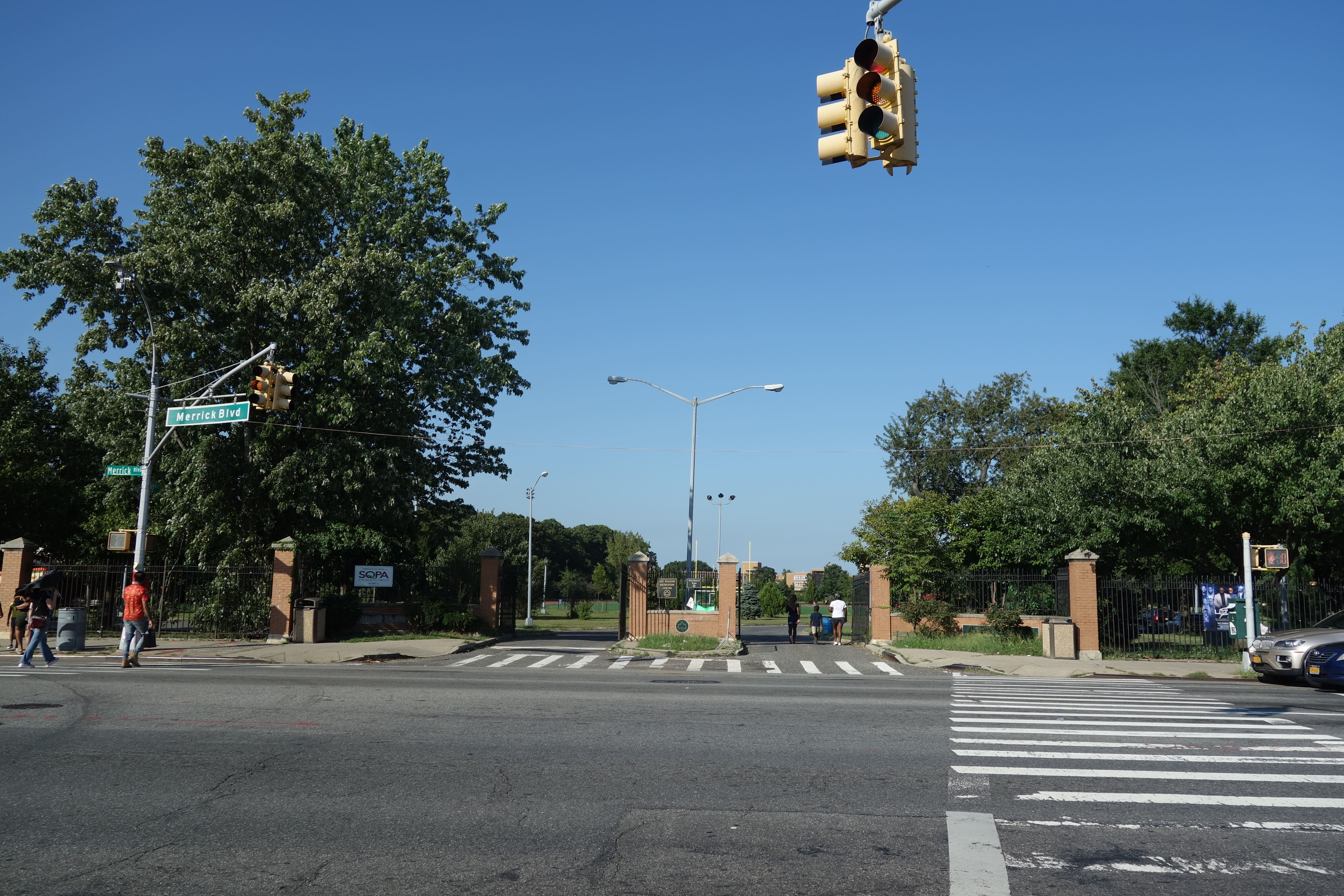 Looking across at the vehicular entrance at the western end of Roy Wilkins Park, at Merrick Boulevard and Foch Boulevard in St. Albans, Queens. Unusual to a city park, it is optimized for car traffic, but not local foot traffic, perhaps because it was built a large tract on the western half of the former St. Albans Naval Hospital.